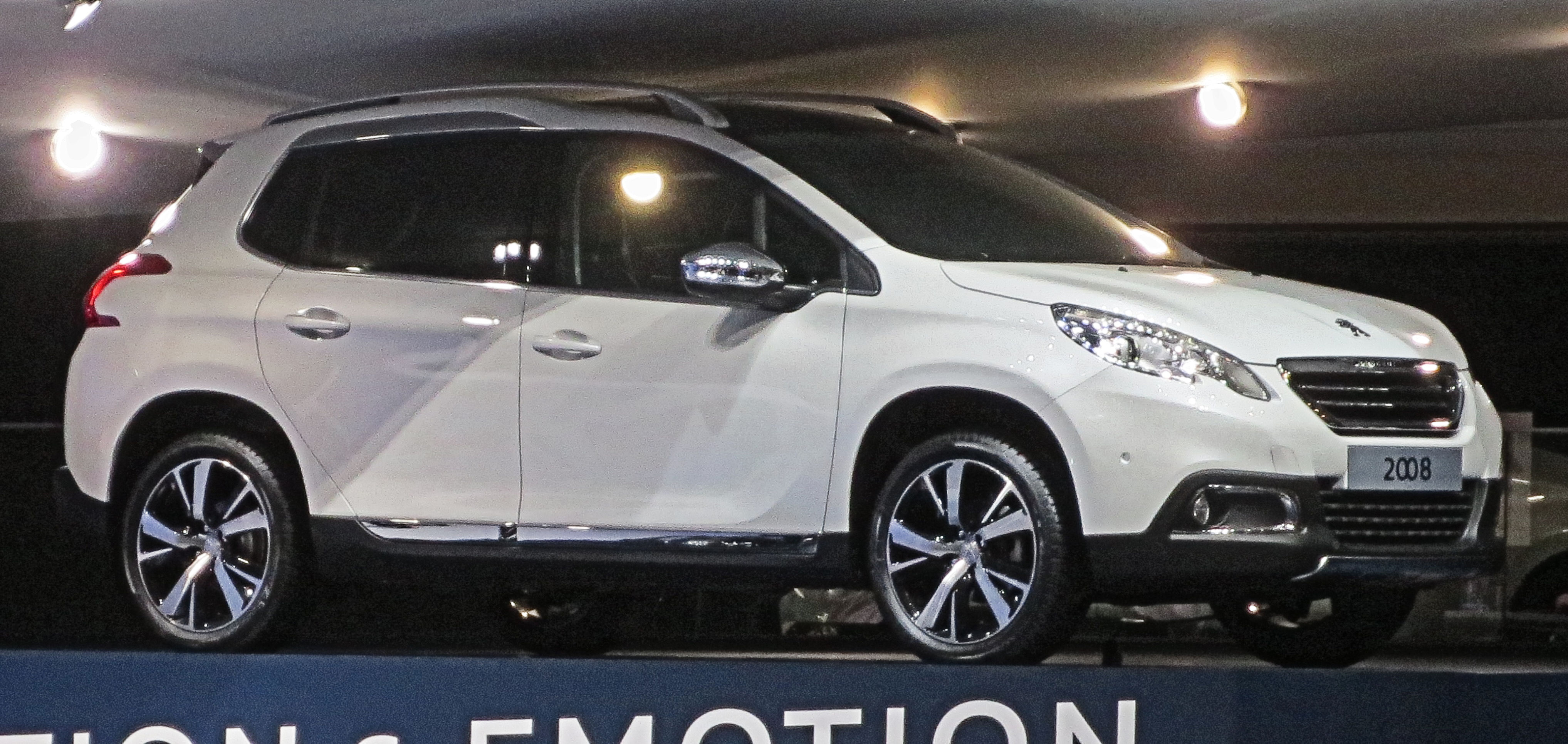 Subject: Peugeot 2008 Author: Luc106 Date:March 12th, 2013 Event: Salon de l'Automobile 2013 Place/Country: Palexpo de Geneve, Geneve (CH) I release all rights in the public domain.